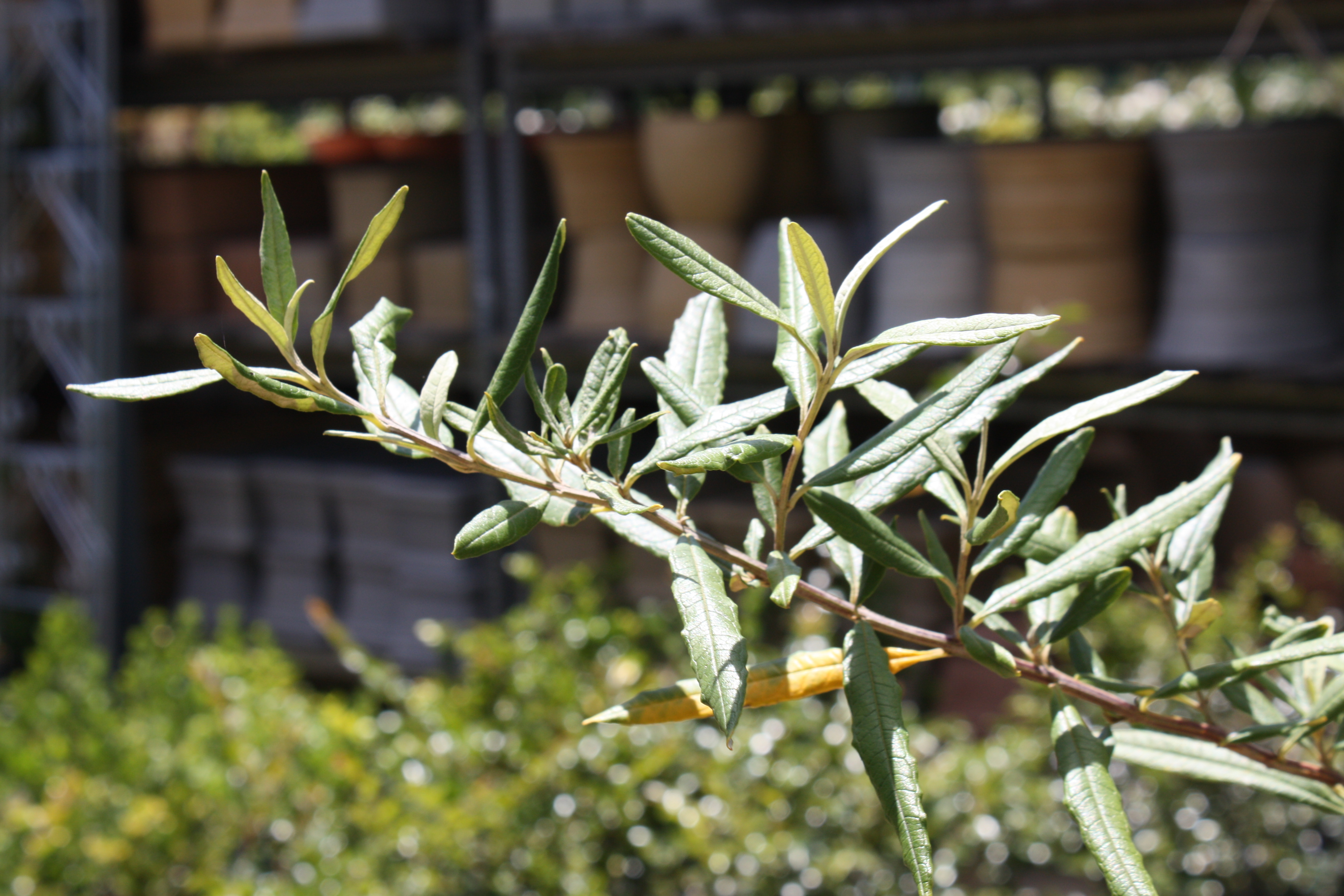 Leaves of Buddleja saligna - the Sand Olive. Photo taken in Cape Town.